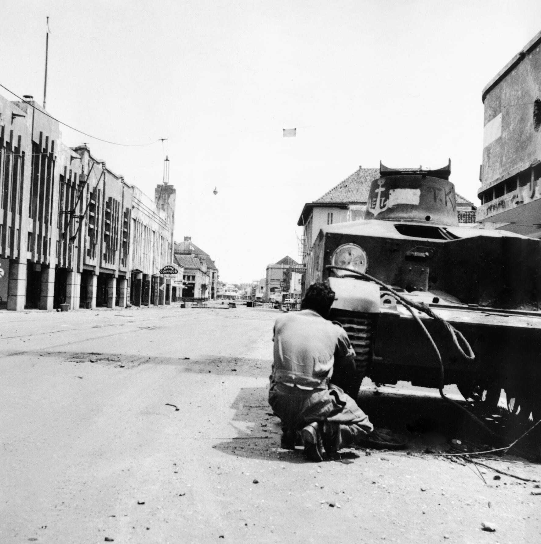 The British occupation of Java. An Indian soldier uses a knocked out Indonesian nationalist tank as cover in a main street in Surabaya (Soerabaja) during the fighting.